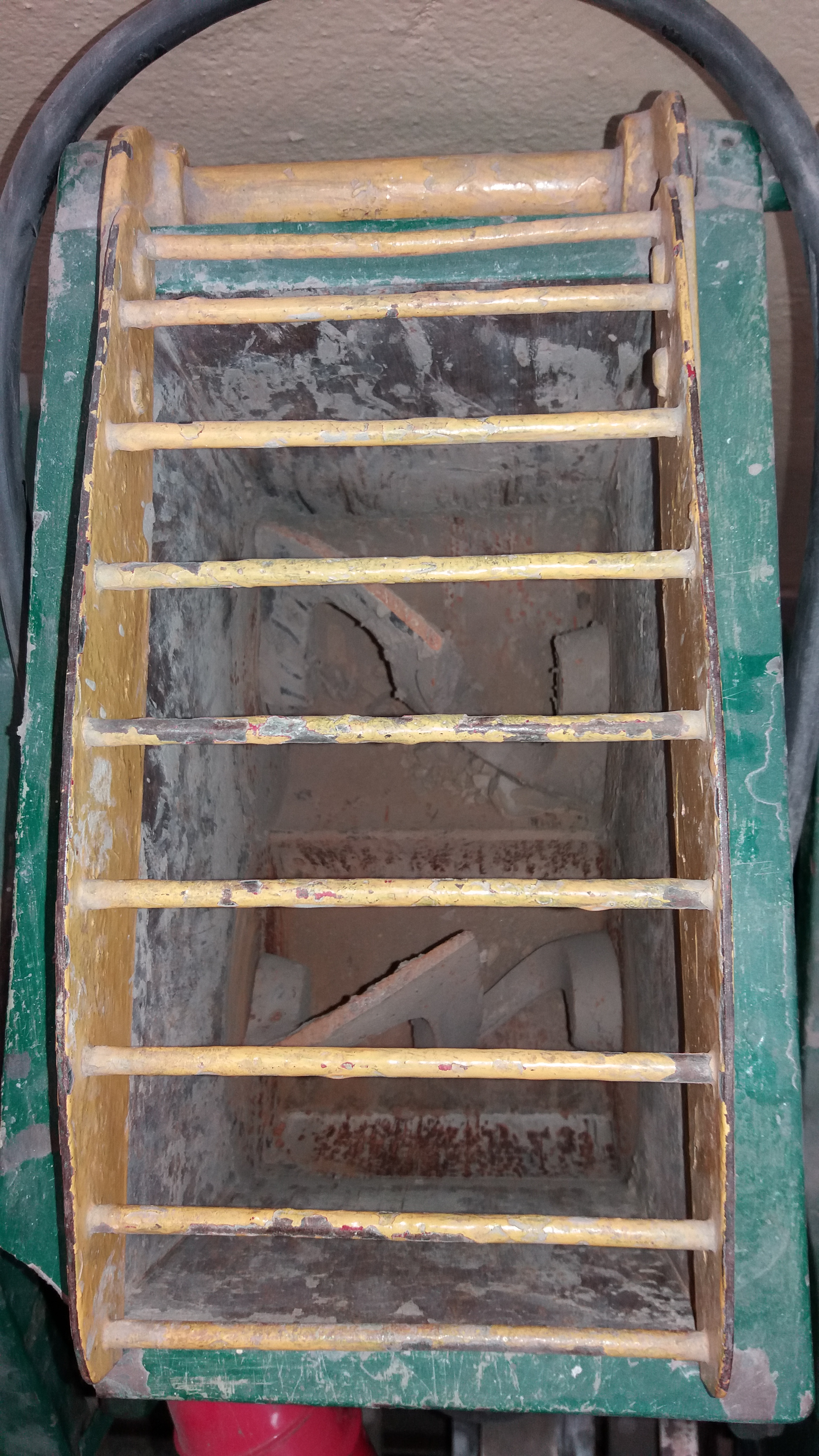 Double shaft mixer. Property of Faculty of Chemistry, Gdańsk University of Technology.